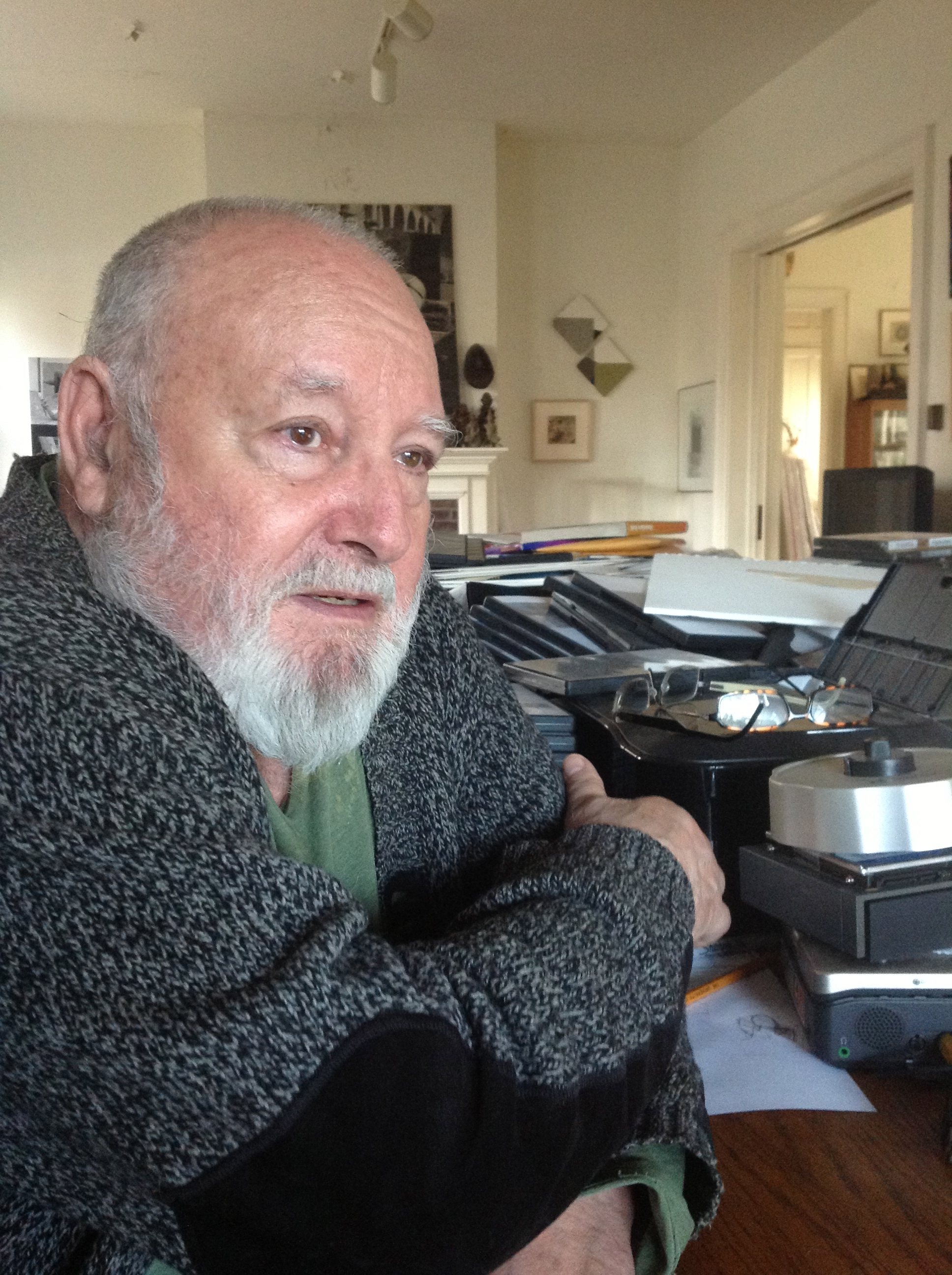 Intermedia Artist Hans Breder, November, 2012